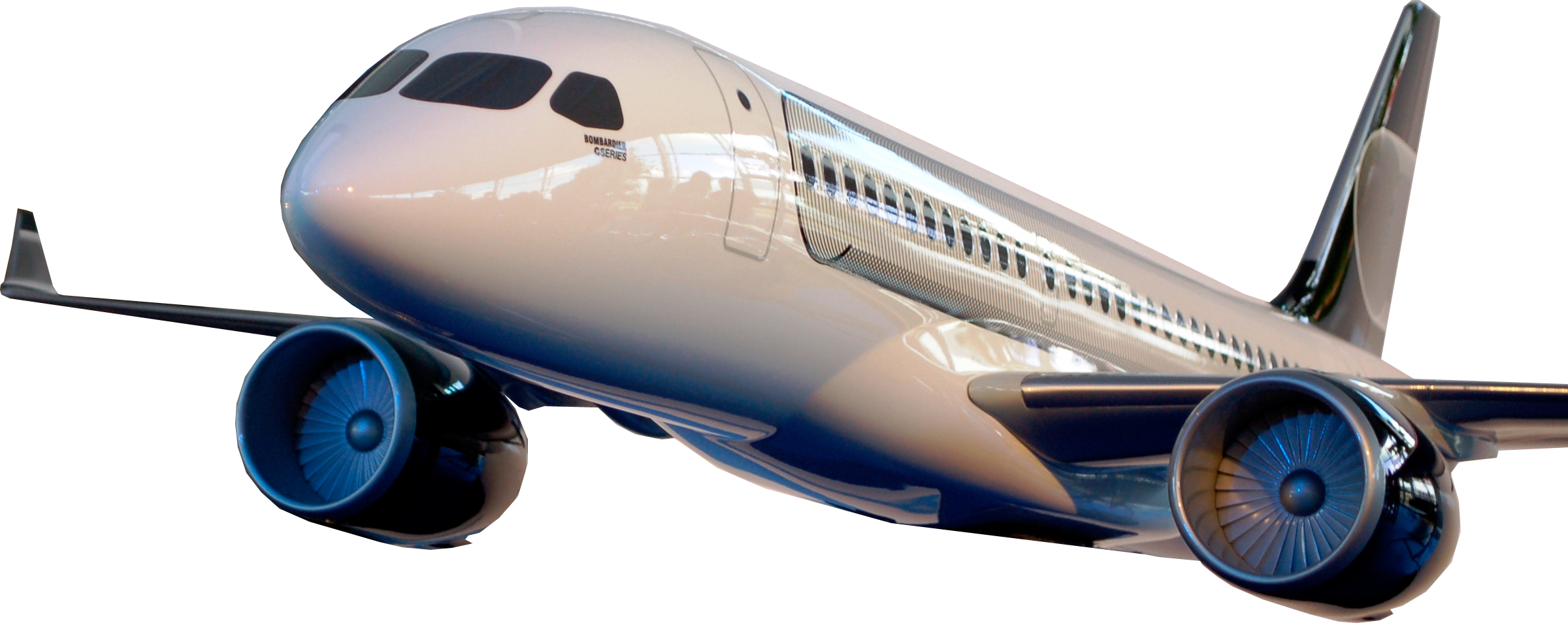 No background